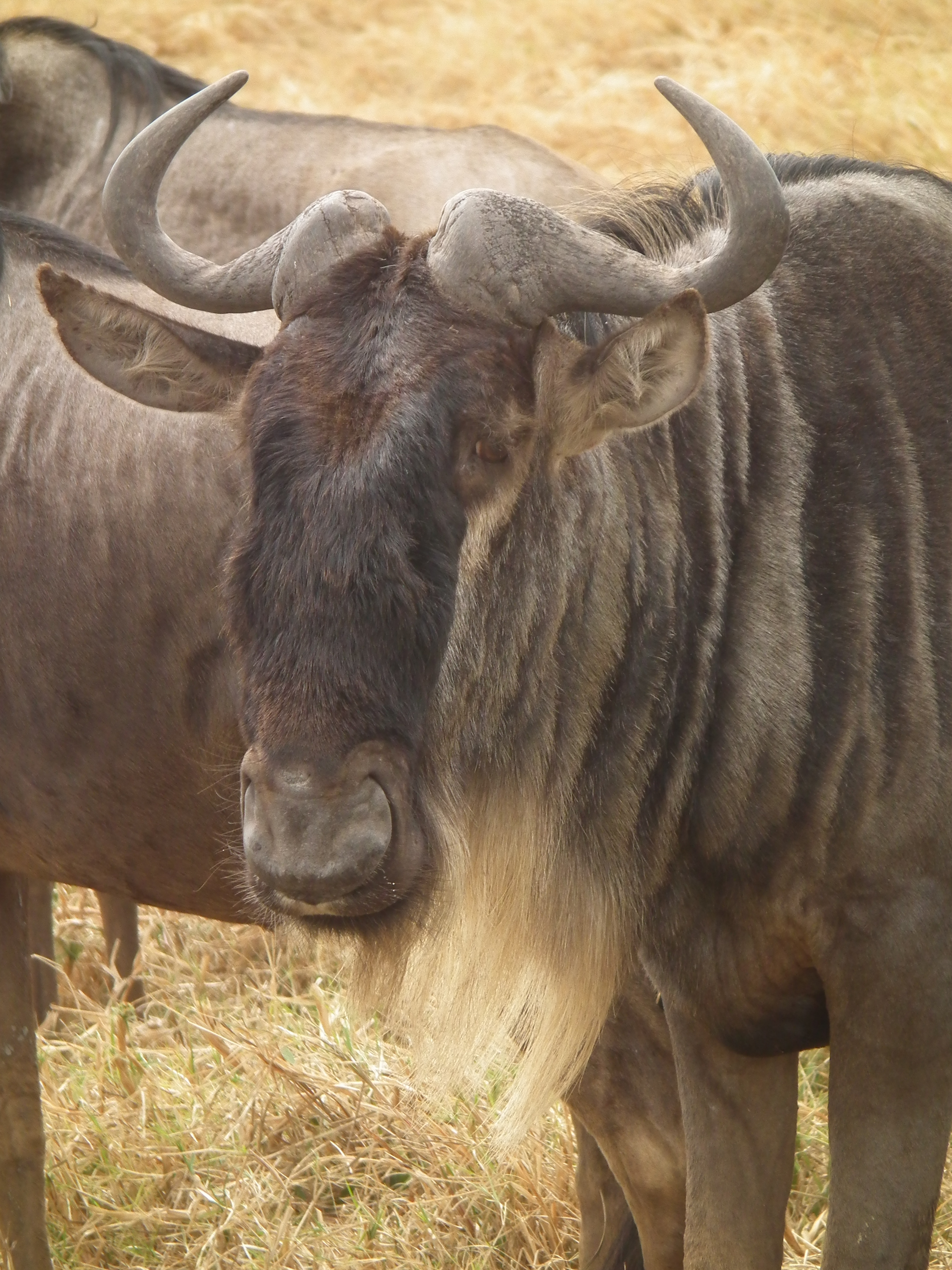 Wildebeest Connochaetes taurinus, picture taken in Tanzania